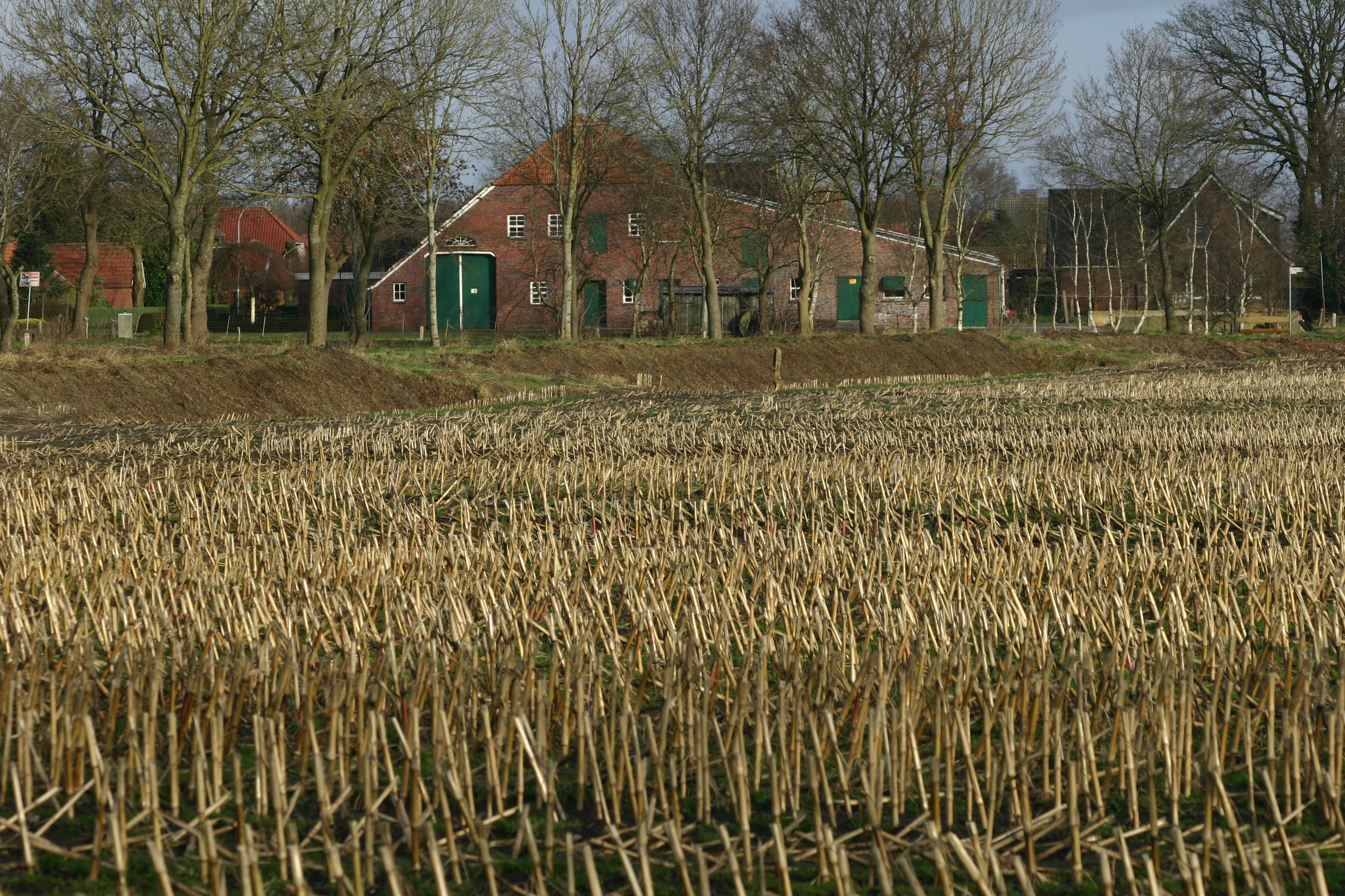 Farmhouse type known as Gulfhaus with harvested crop field in the foreground in Lammertsfehn, district of Leer, East Frisia, Germany